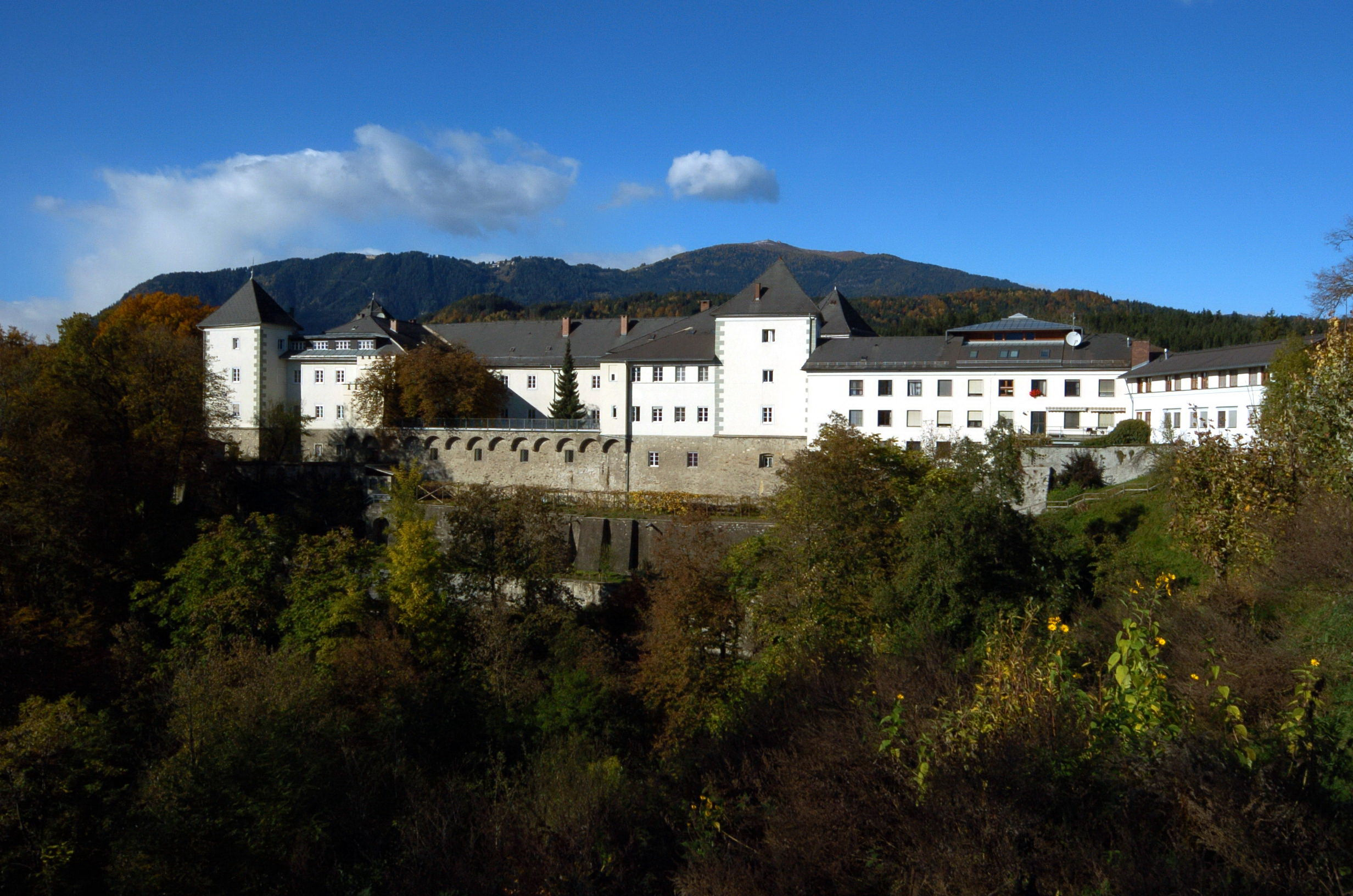 Castle and monastery Wernberg, Klosterweg #2, municipality Wernberg, district Villach Land, Carinthia, Austria, EU